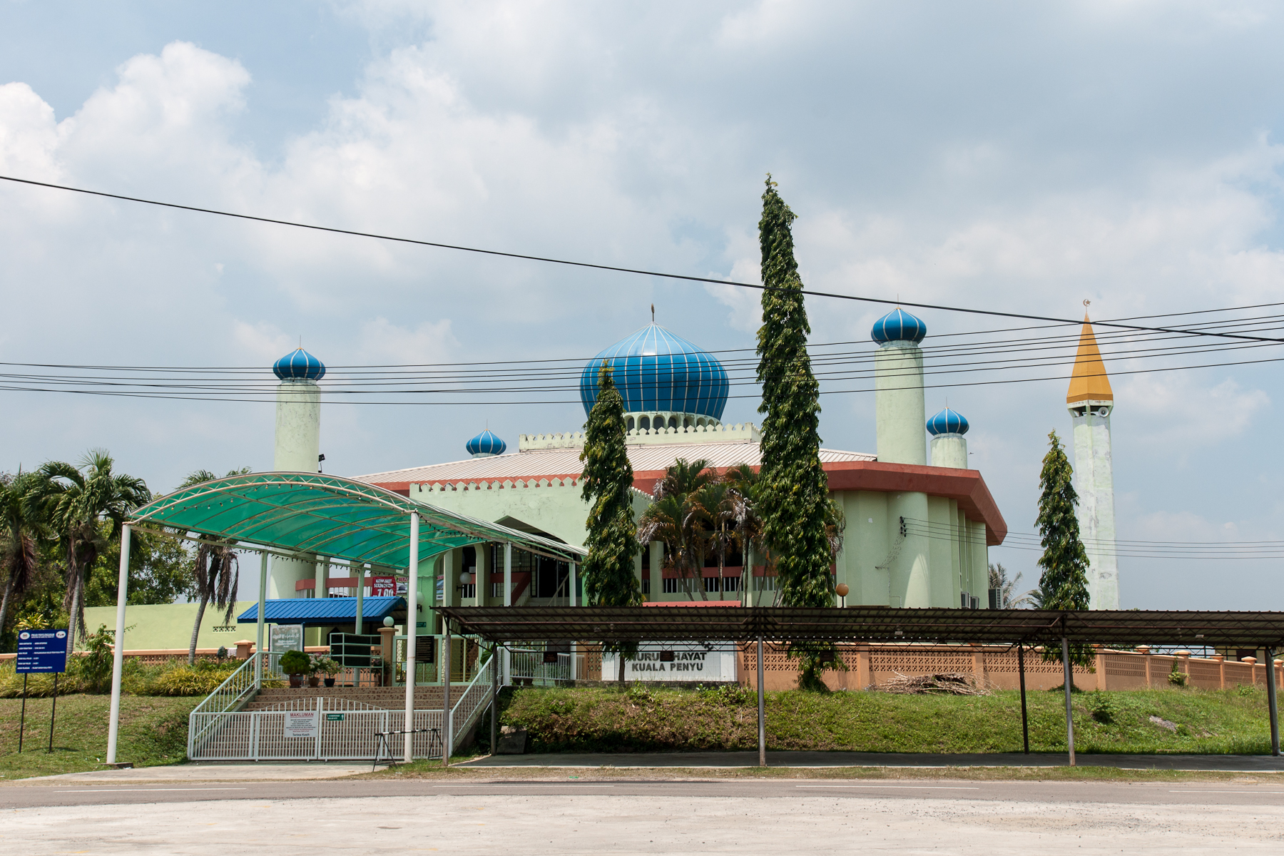 Kuala Penyu; Masjid Nurul Hayat)